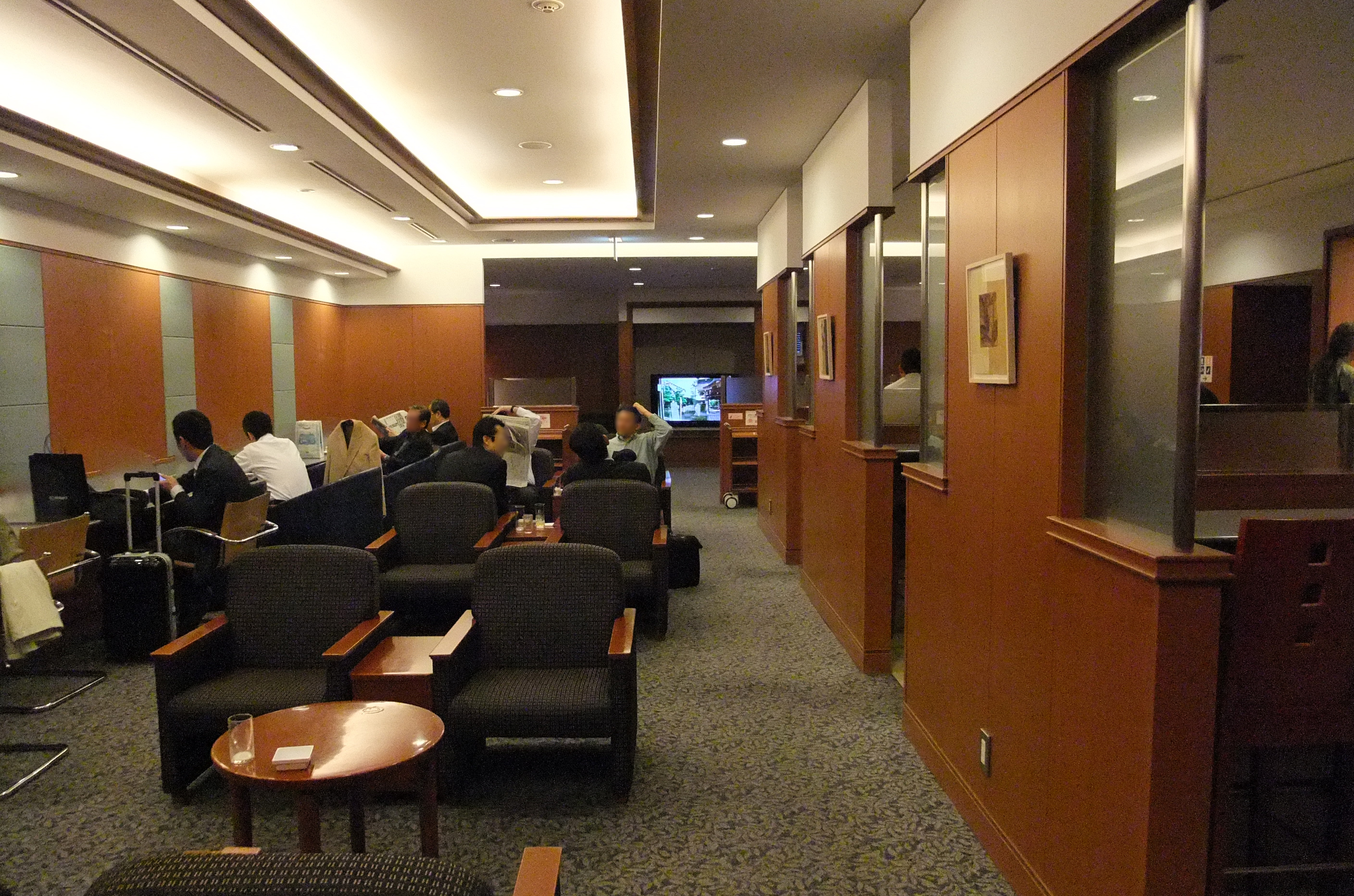 SAKURA Lounge of New_Chitose Airport (Domestic) in Chitose, Hokkaido prefecture, Japan